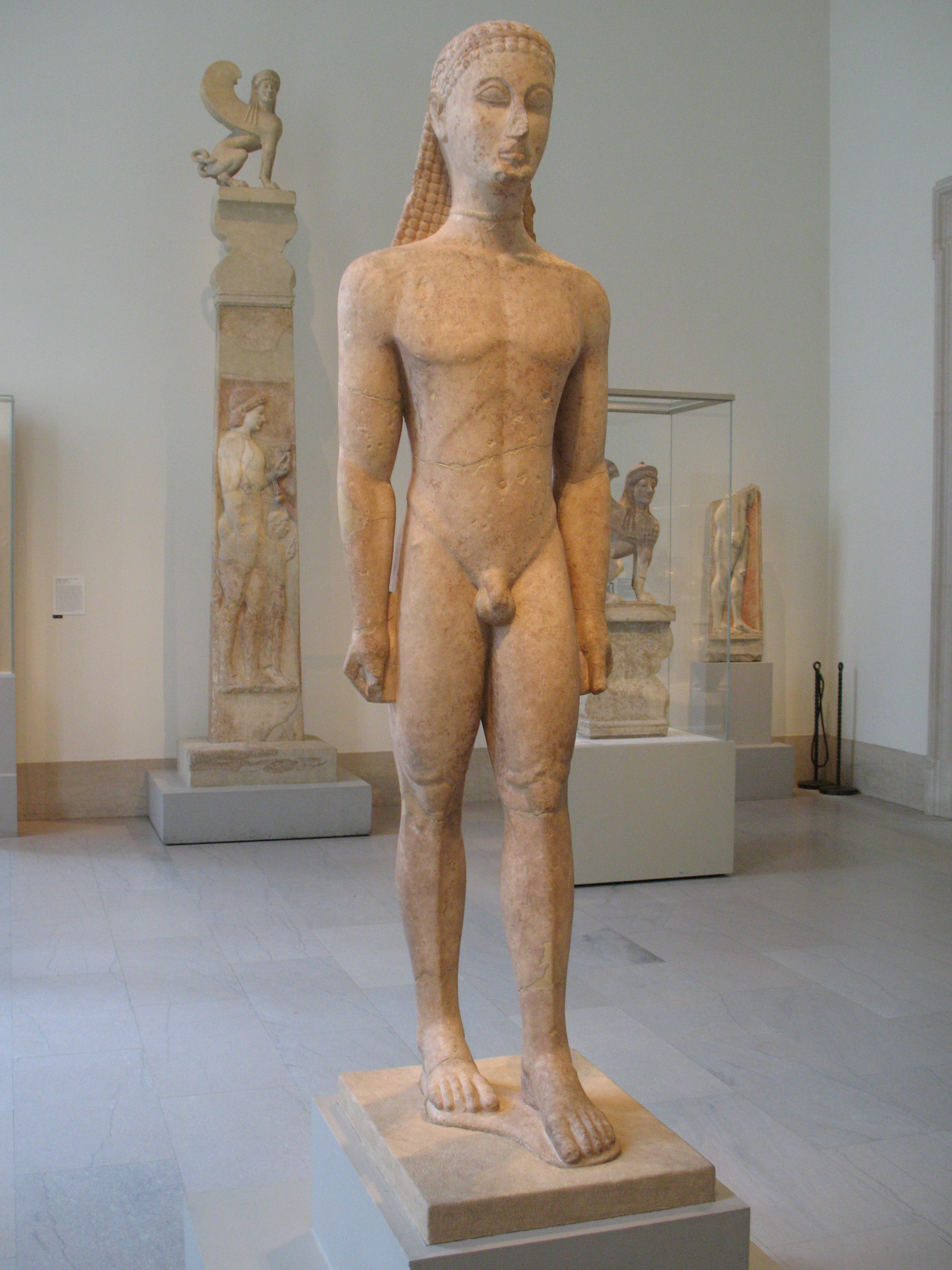 Marble staue of a kouros (youth); Greek, Attic, ca. 590 - 580 B.C.